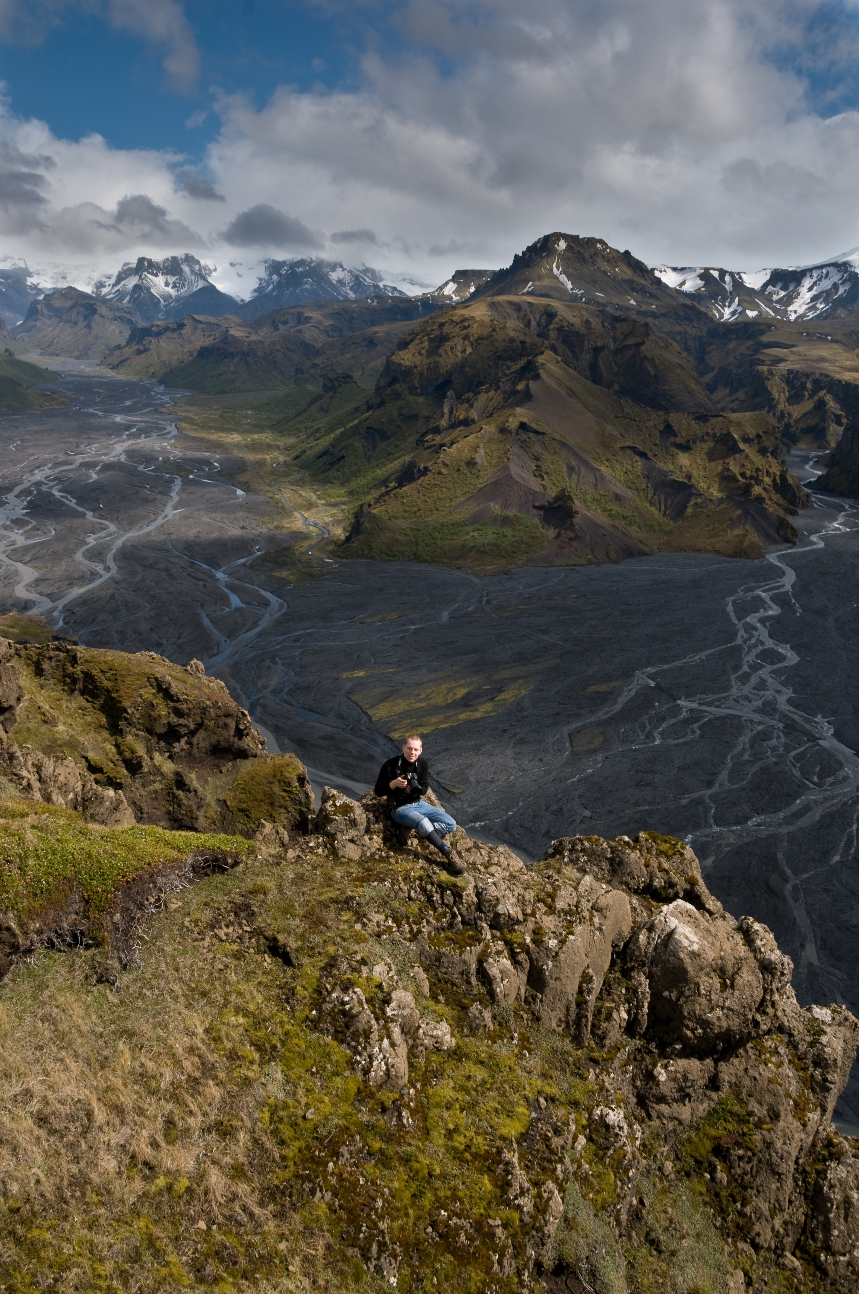 Útigönguhöfði seen from Þórsmörk (Valahnúksból) in june 2009. Krossá to the left and Hvannárgil to the right.